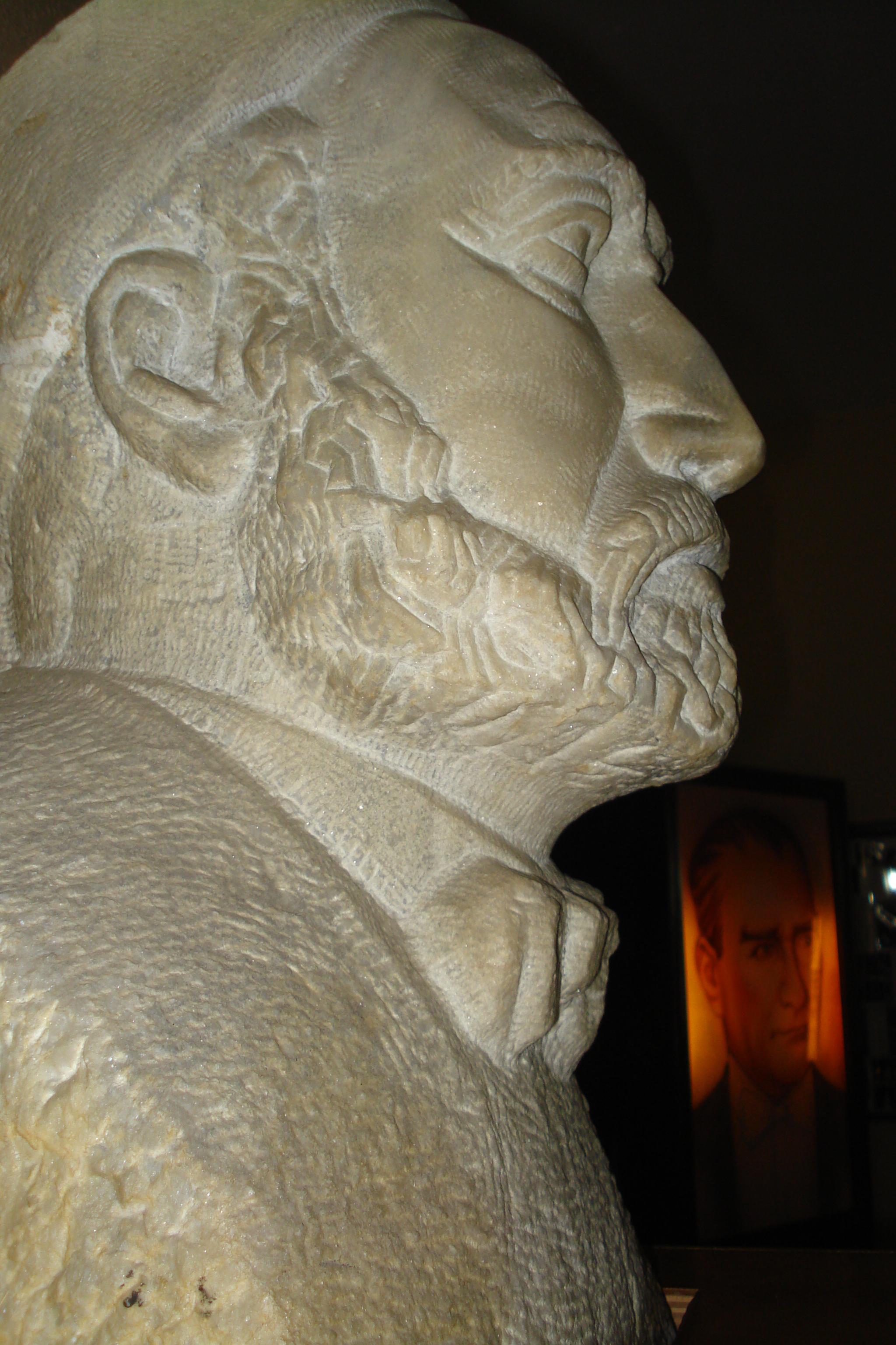 Bust of Ahmed Vefik Pasha in Bursa State Theatre.